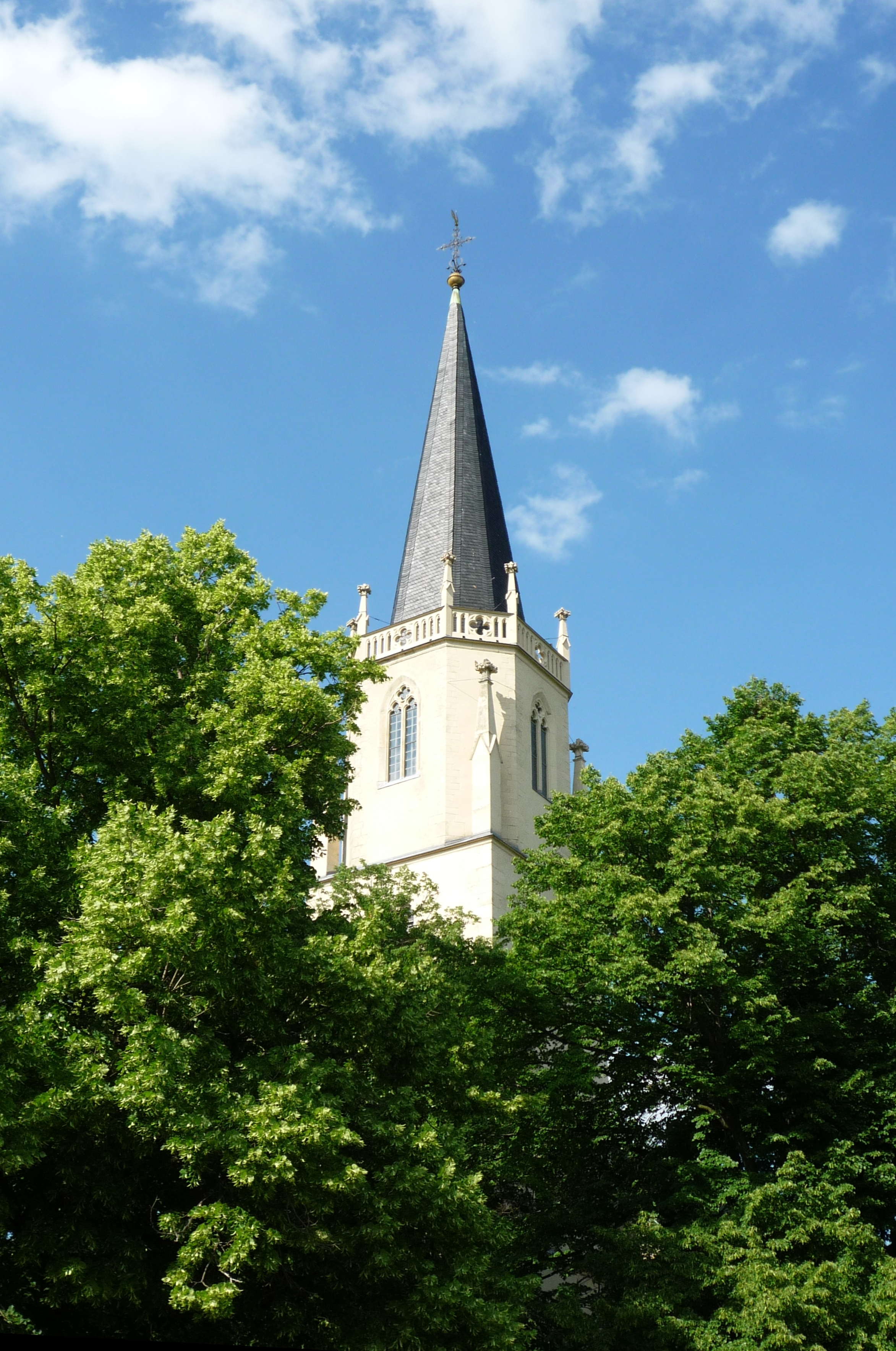 St. Urban church in Wantewitz